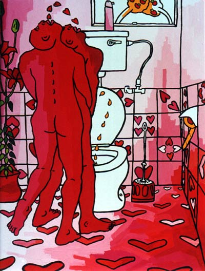 Raphael Perez, Gay couple peeing, acrylic on canvas, 200x150 cm, private collection.